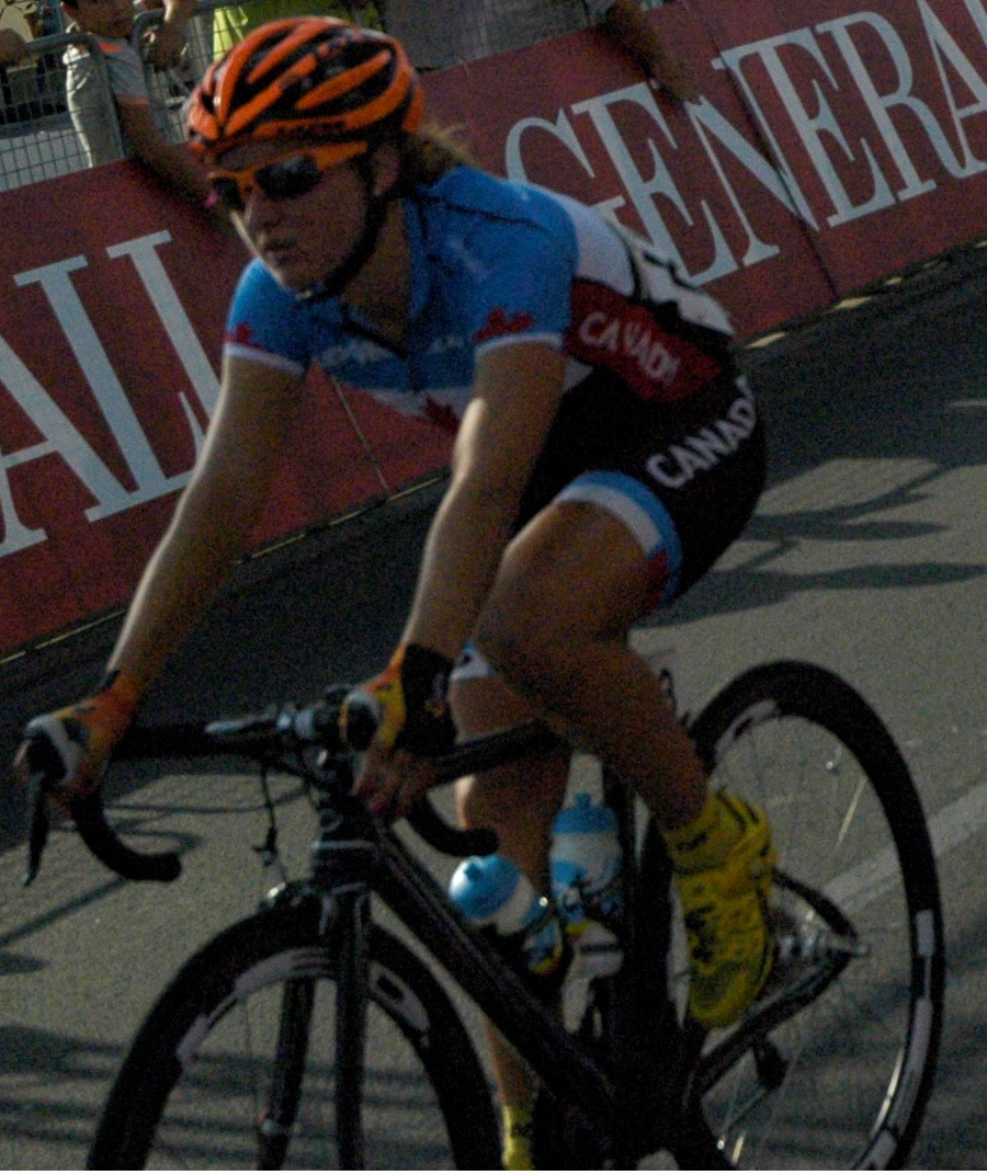 Leah Kirchmann in the road race at the 2013 UCI Road World Championships